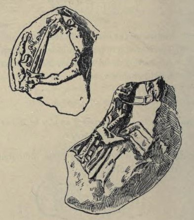 Seal of Walter V of Brienne